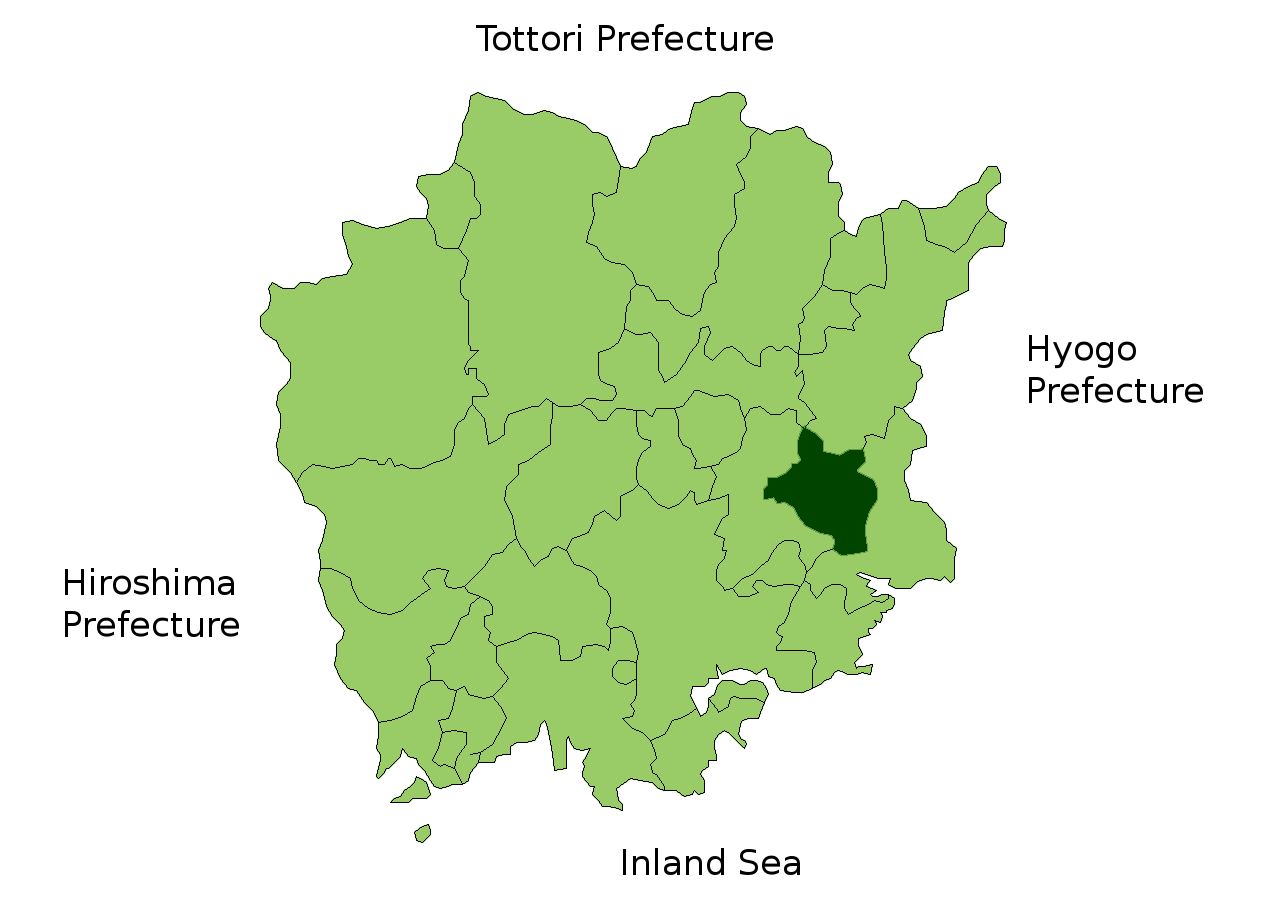 Map of Okayama Prefecture highlighting Wake town. Borders of map as of October, 2006. (blank map used from [1]) See also Image:OkayamaMapCurrent.png.